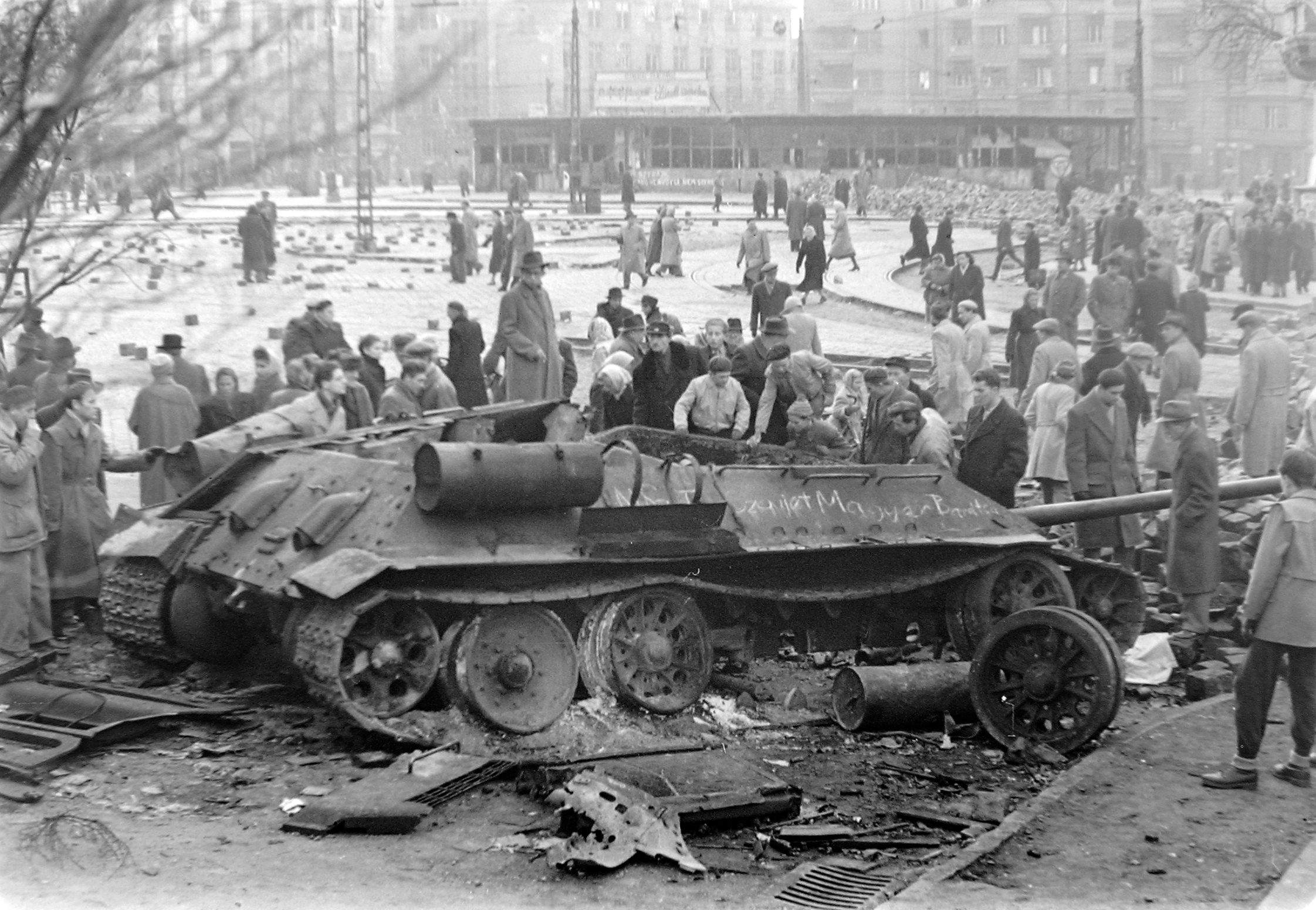 A destroyed T-34-85 tank at the Móricz Zsigmond Square